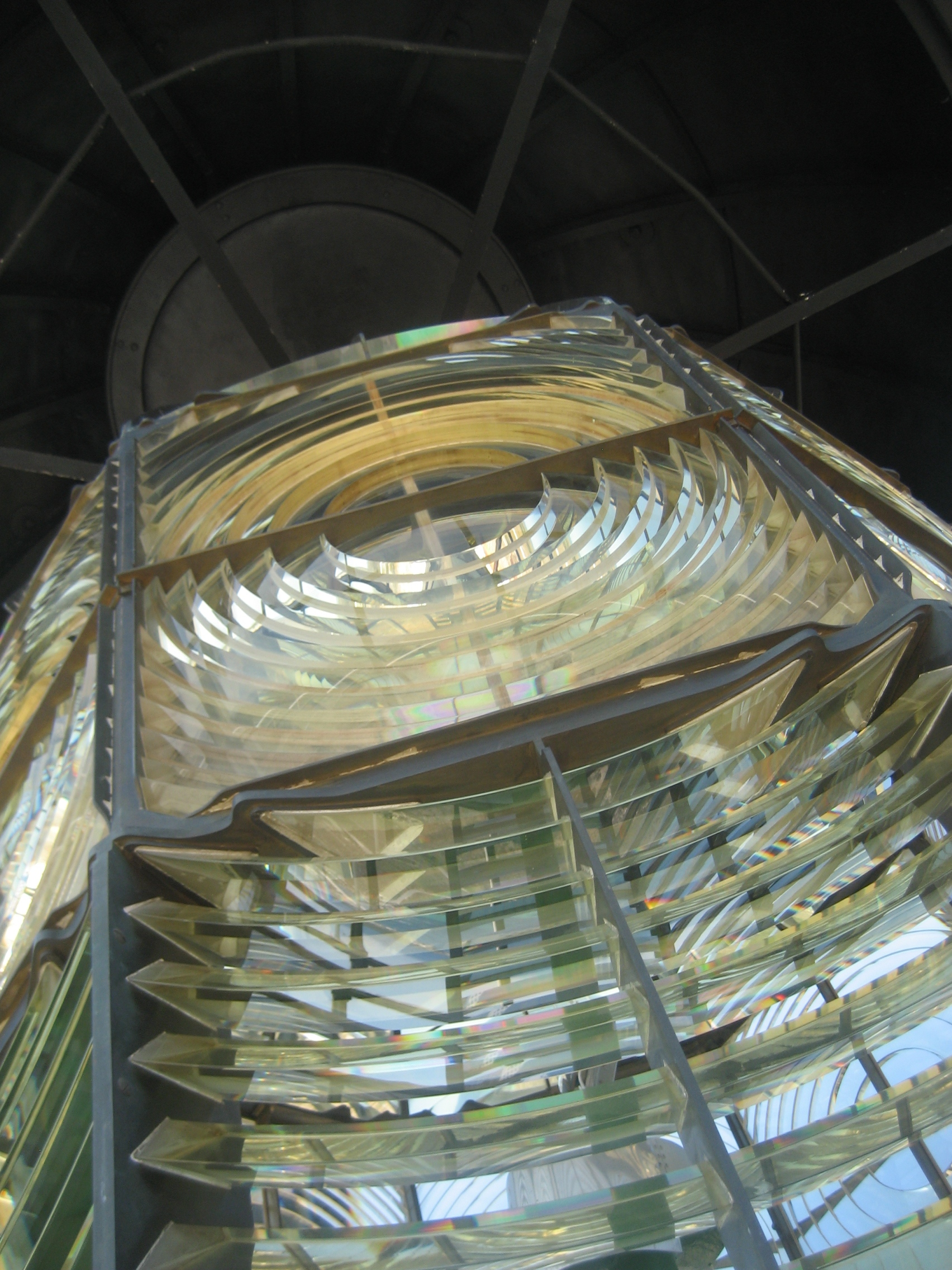 Wadjemup lighthouse lens